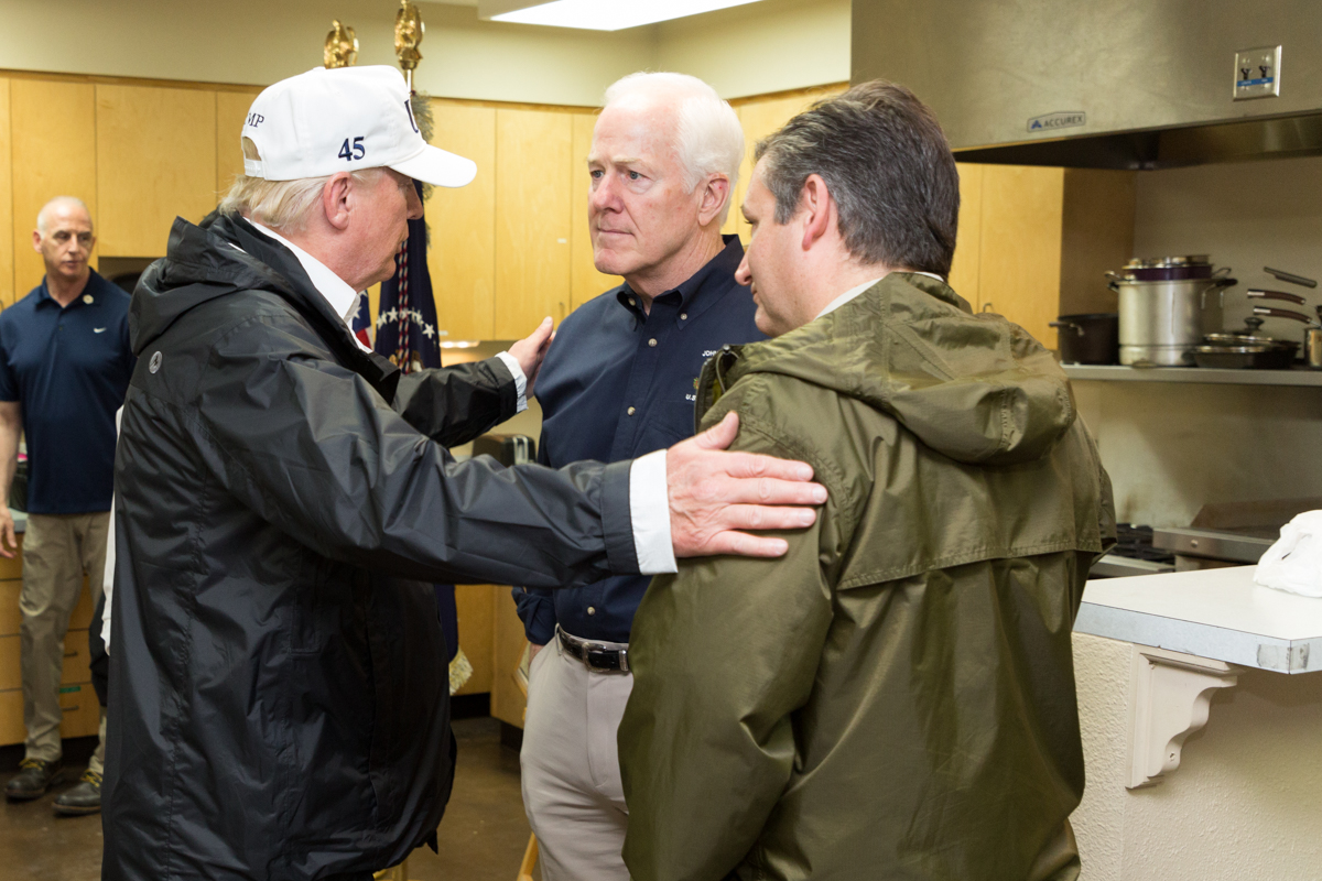 President Donald J. Trump, Senator John Cornyn, and Senator Ted Cruz, August 29, 2017 (Official White House Photo by Shealah Craighead)